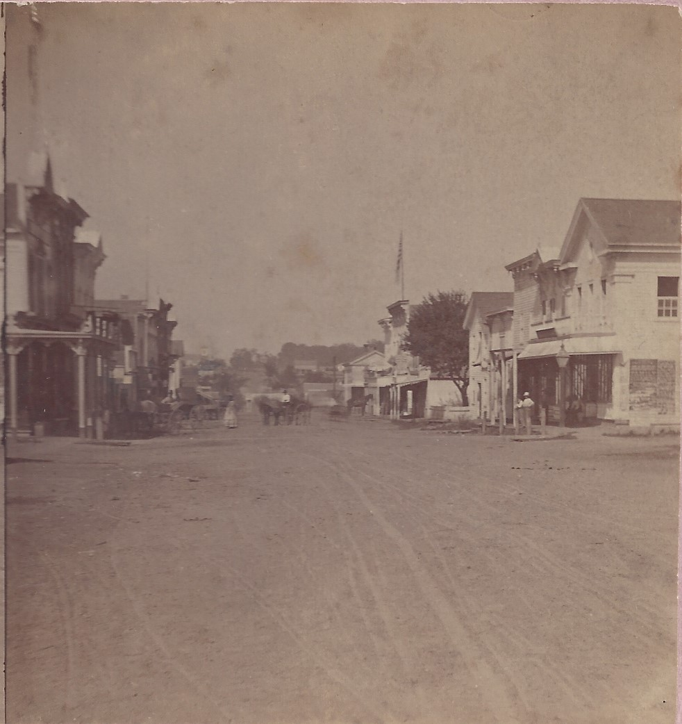 Downtown Flushing looking west. Building on far right is Corinthian Hall which was covered in brick in 1891 and is still standing. J & C Seymour building on the far left.